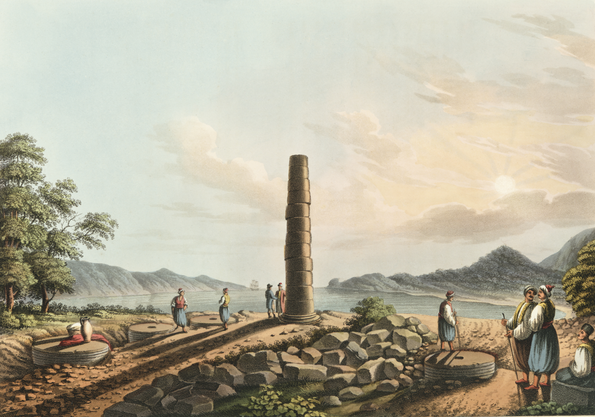 Ruins of the Temple of Juno in Samos from Views in the Ottoman Dominions, in Europe, in Asia, and some of the Mediterranean islands (1810) illustrated by Luigi Mayer (1755-1803).